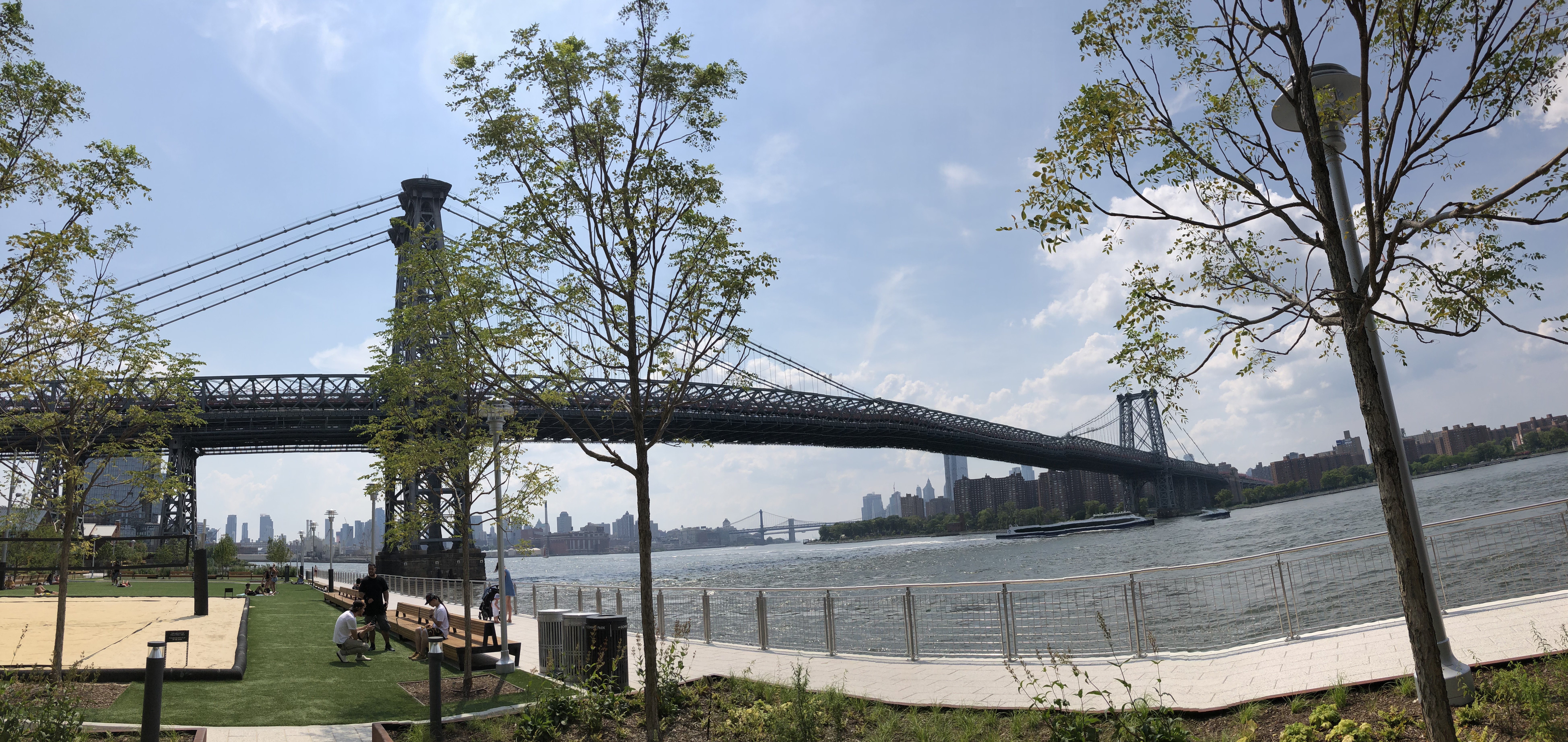 Panorama image of Williamsburg from Domino Park in 2018